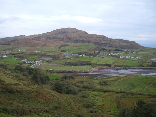 GAA Pitch at Kilcar